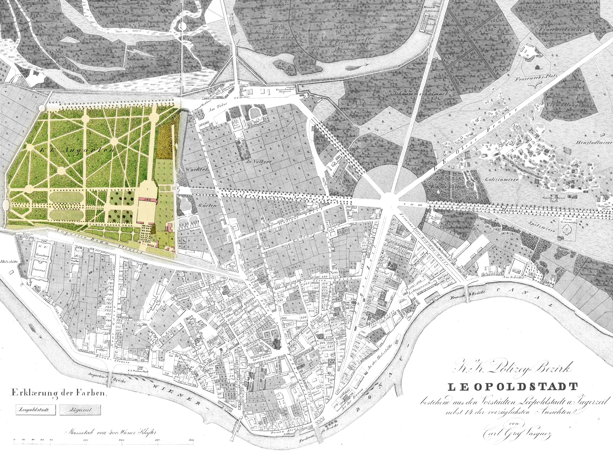 Map of Vienna / Augarten, approx. 1830